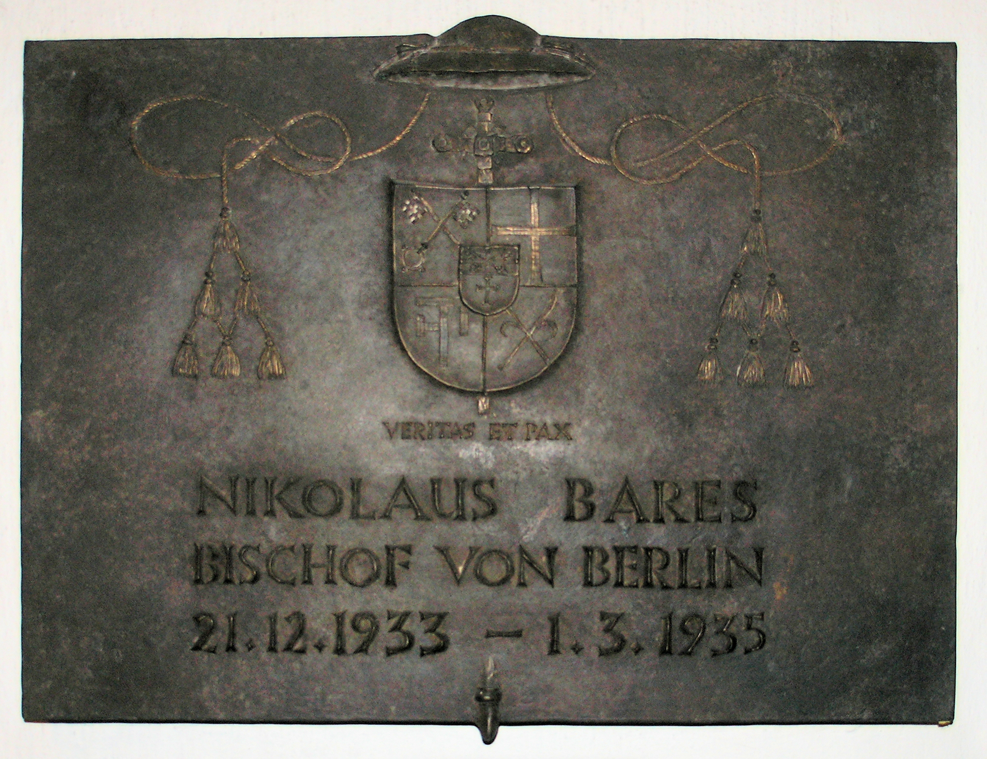 Grave marker for Nikolaus Bares in St Hedwig Cathedral Berlin (Address: Hinter der Katholischen Kirche 3, Berlin-Mitte, Germany)